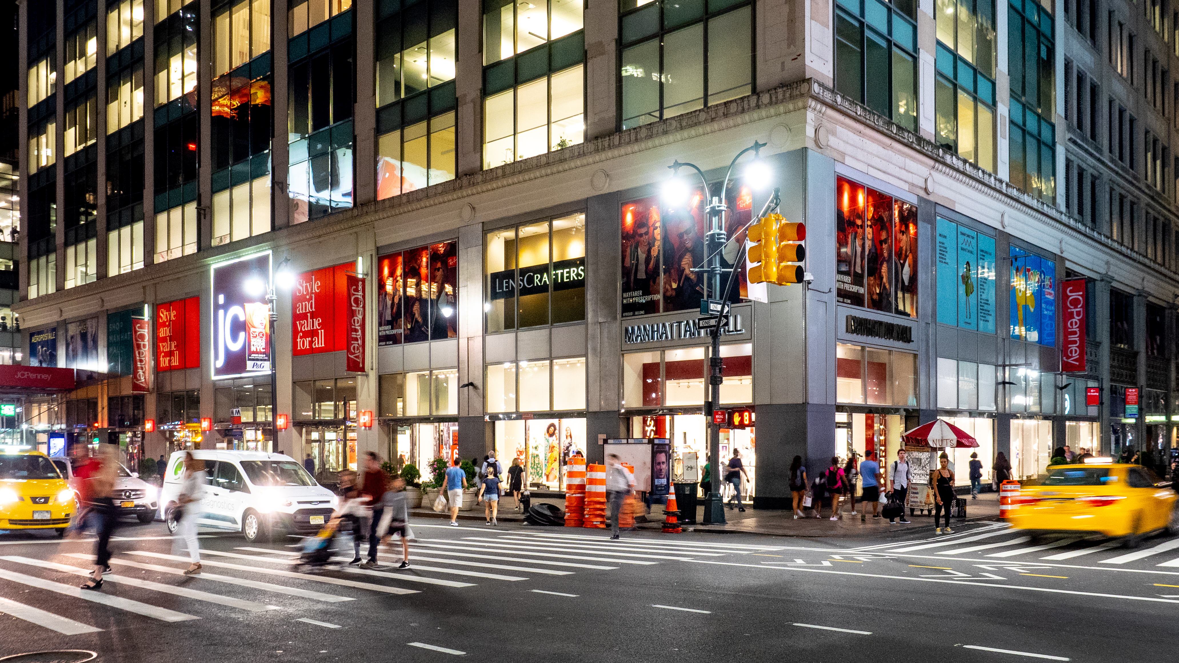 Midtown Manhattan , NYC